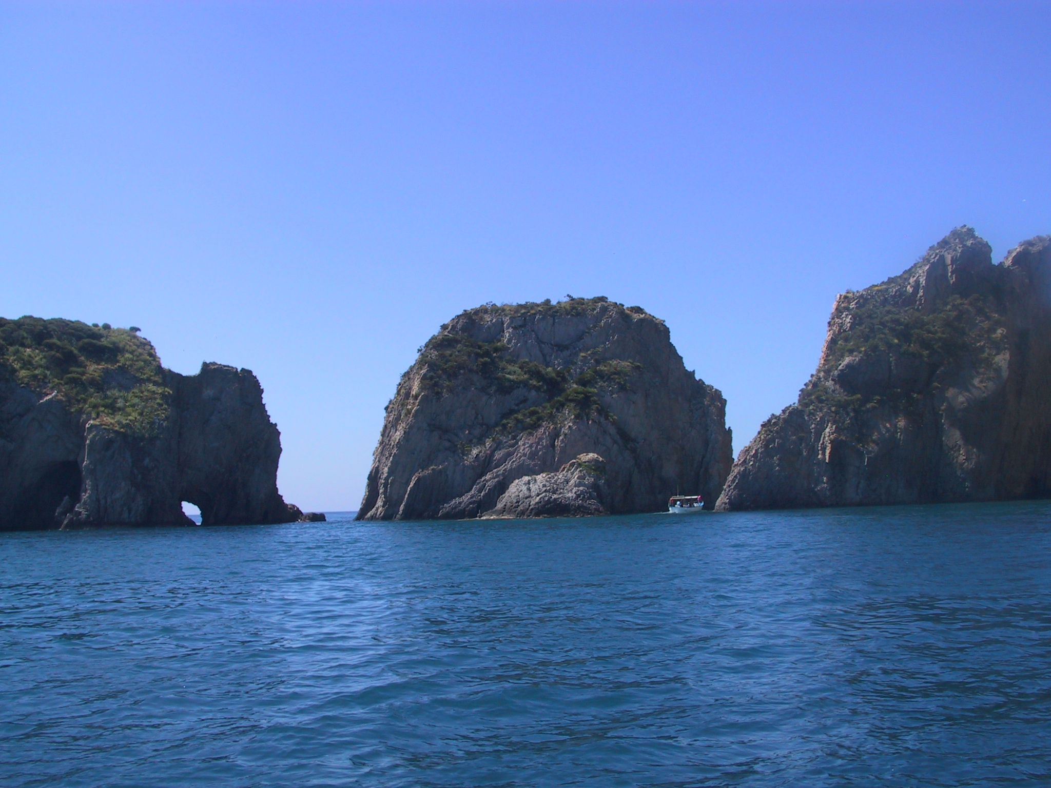 Tall rock in Ponza.